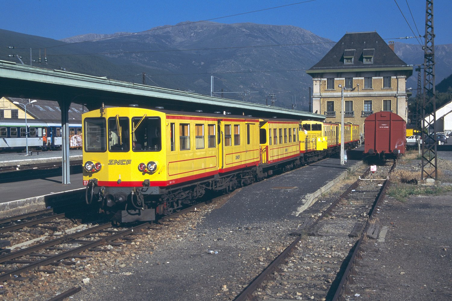 Train of the Ligne de Cerdagne (le petit train jaune) in la Tour-de-Carol-Enveitg station.